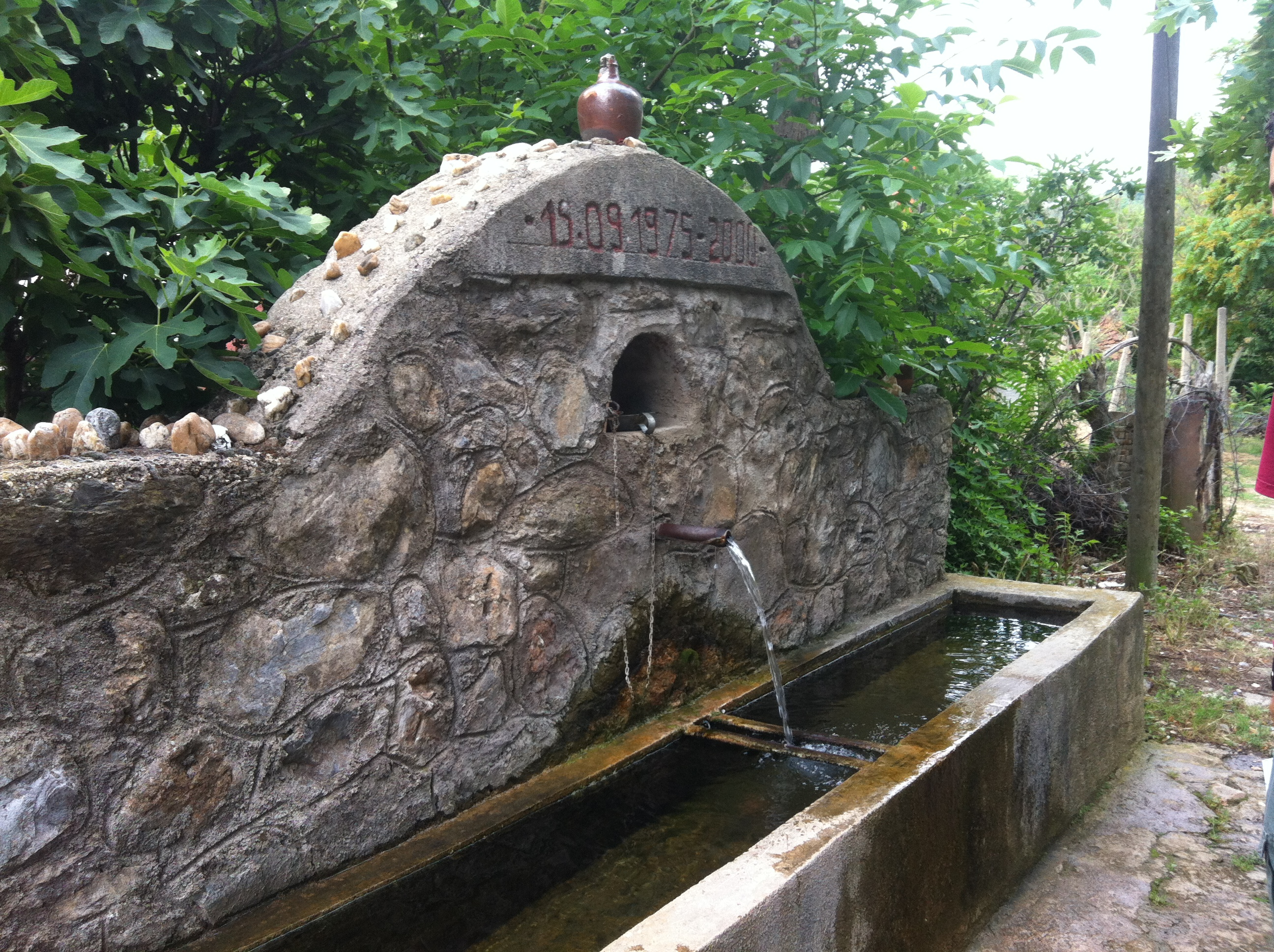 Village fountain of Beleštevica, near Veles, Macedonia